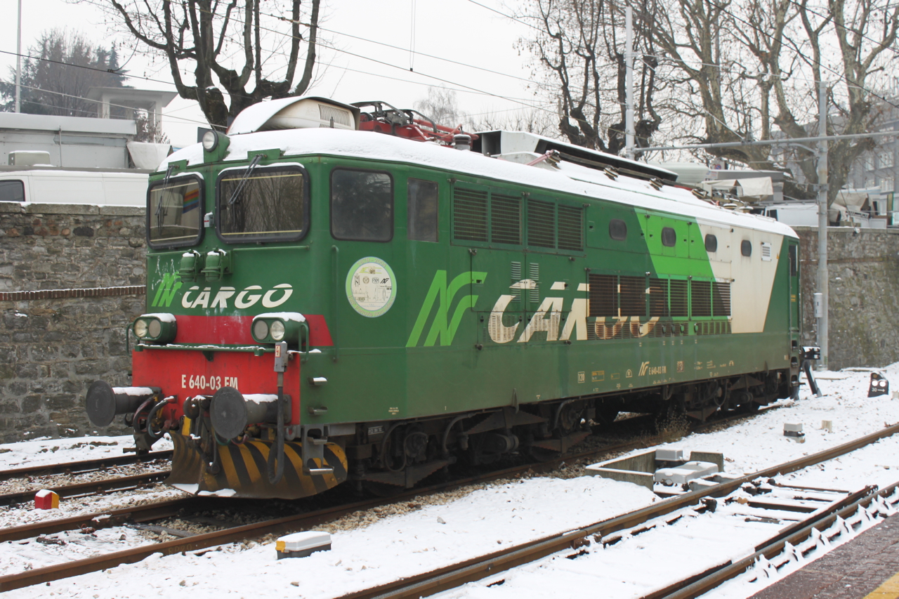 FNM E.640-03 at Varese Nord station.